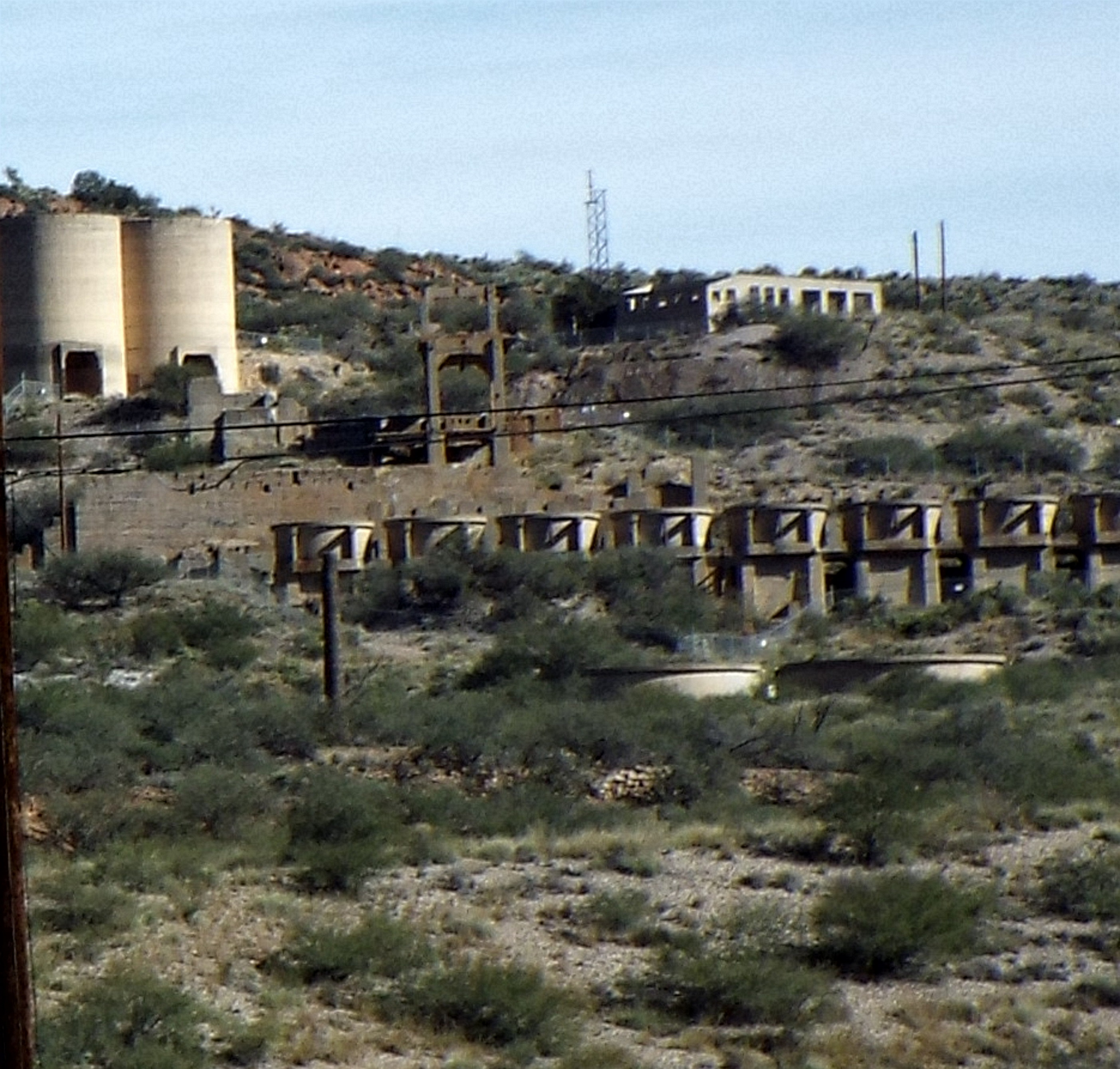 Globe-Smelter of the Old Dominian Copper Company-1906-2